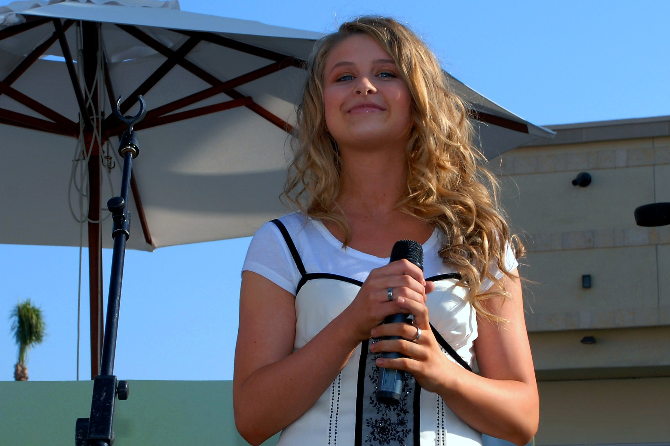 Savannah Outen during a live performance to promote her single "If You Only Knew" in Arcadia, California on May 9th 2009.